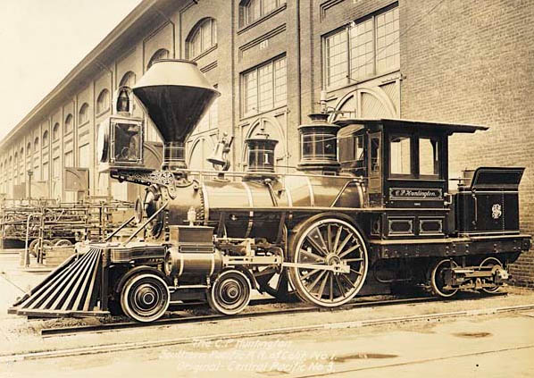 Photograph of locomotive "C.P. Huntington" (Central Pacific No. 3, Southern Pacific No. 1), showing its post-1888 rebuild appearance.